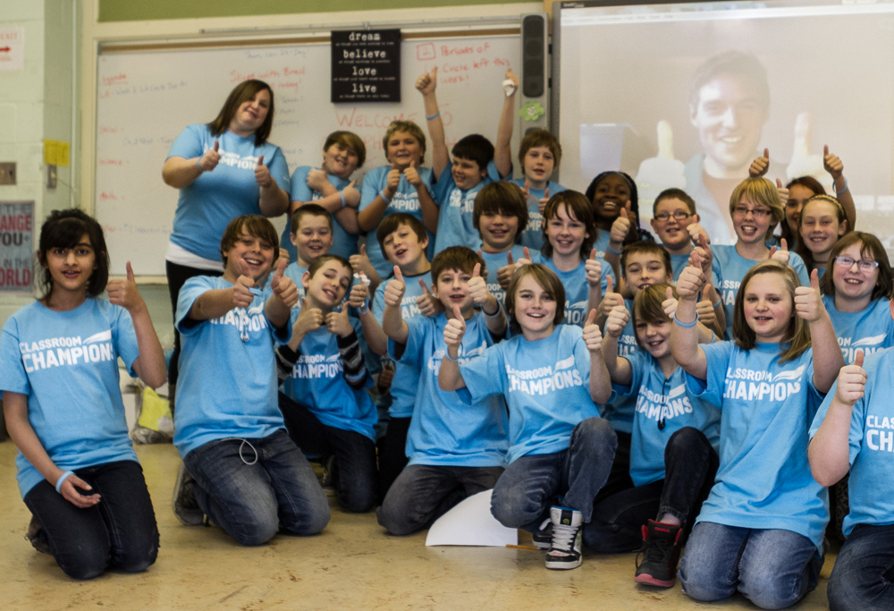 Olympian Brad Spence visits one of his Classroom Champions classrooms in Calgary, AB via Google Hangout.